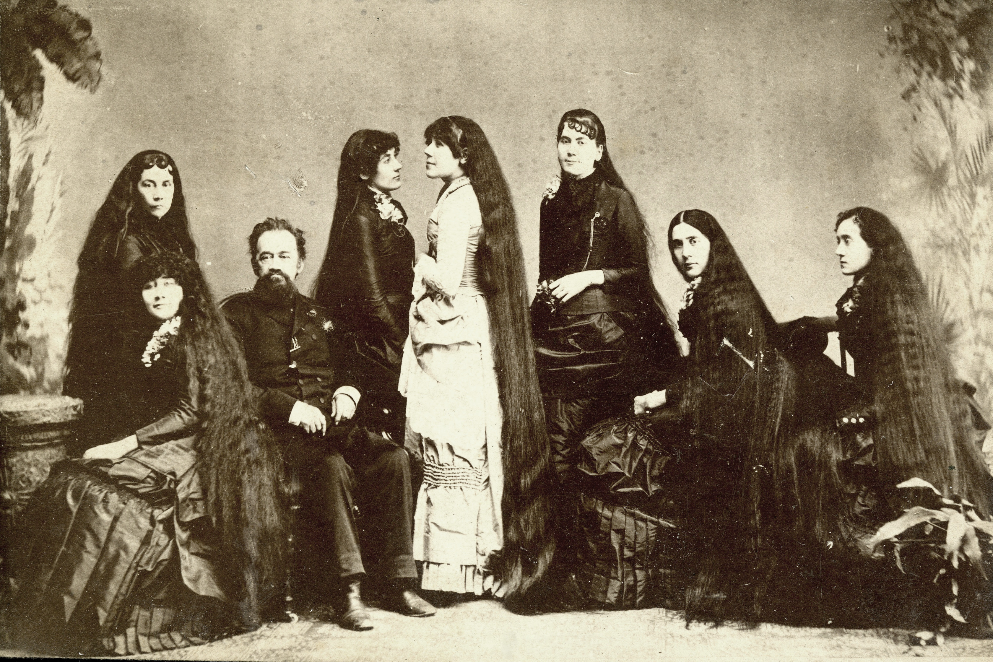 The Seven Sutherland Sisters, a group of singing ladies from Lockport/Niagara, N.Y., were famous for their long hair, which they showed off in a sideshow of Barnum & Bailey’s from about 1882 to 1907. On such group photos the sisters were always placed in such a way that it seemed all of the sisters had hair reaching the floor.